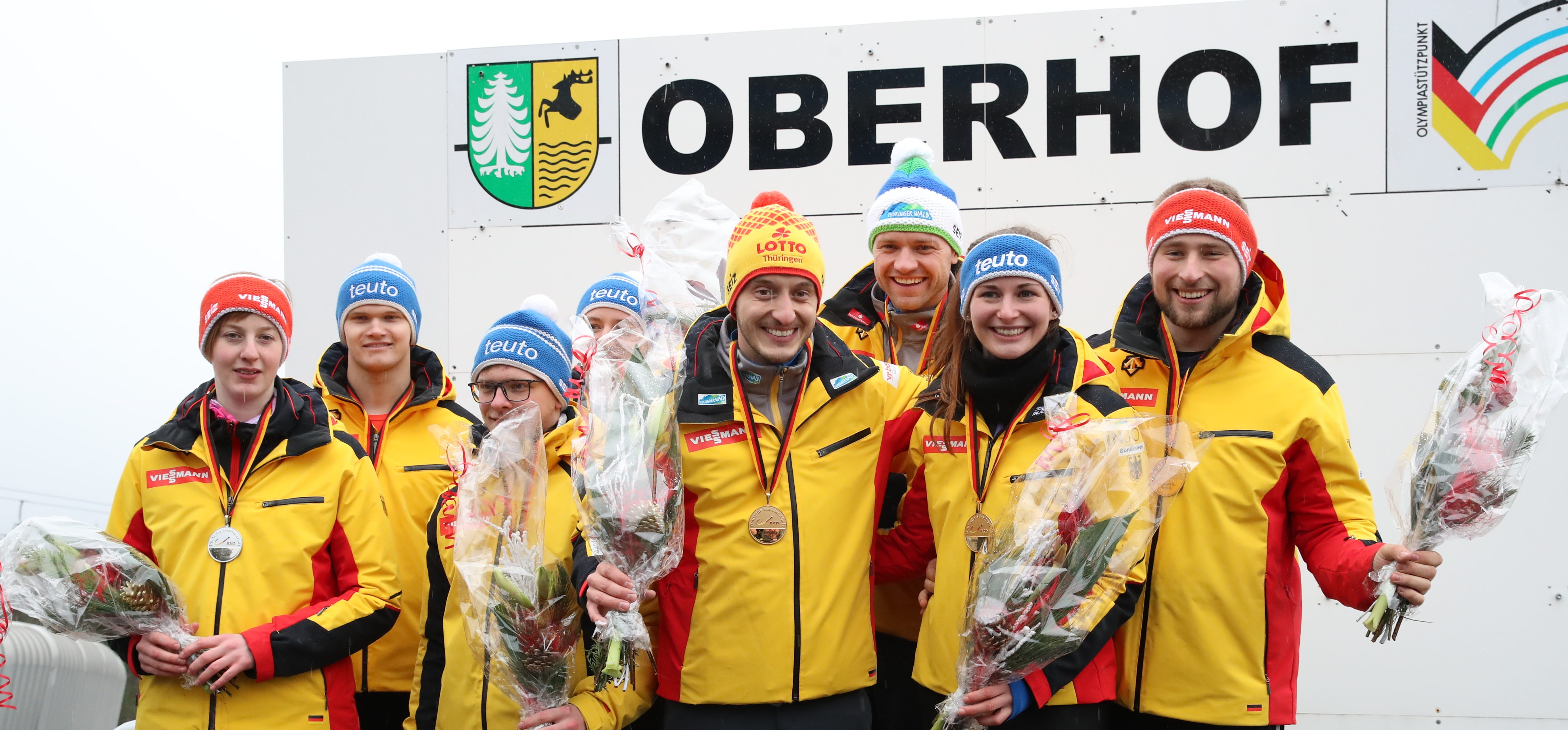 Victory Ceremony at the German Luge Championships 2019 in Oberhof